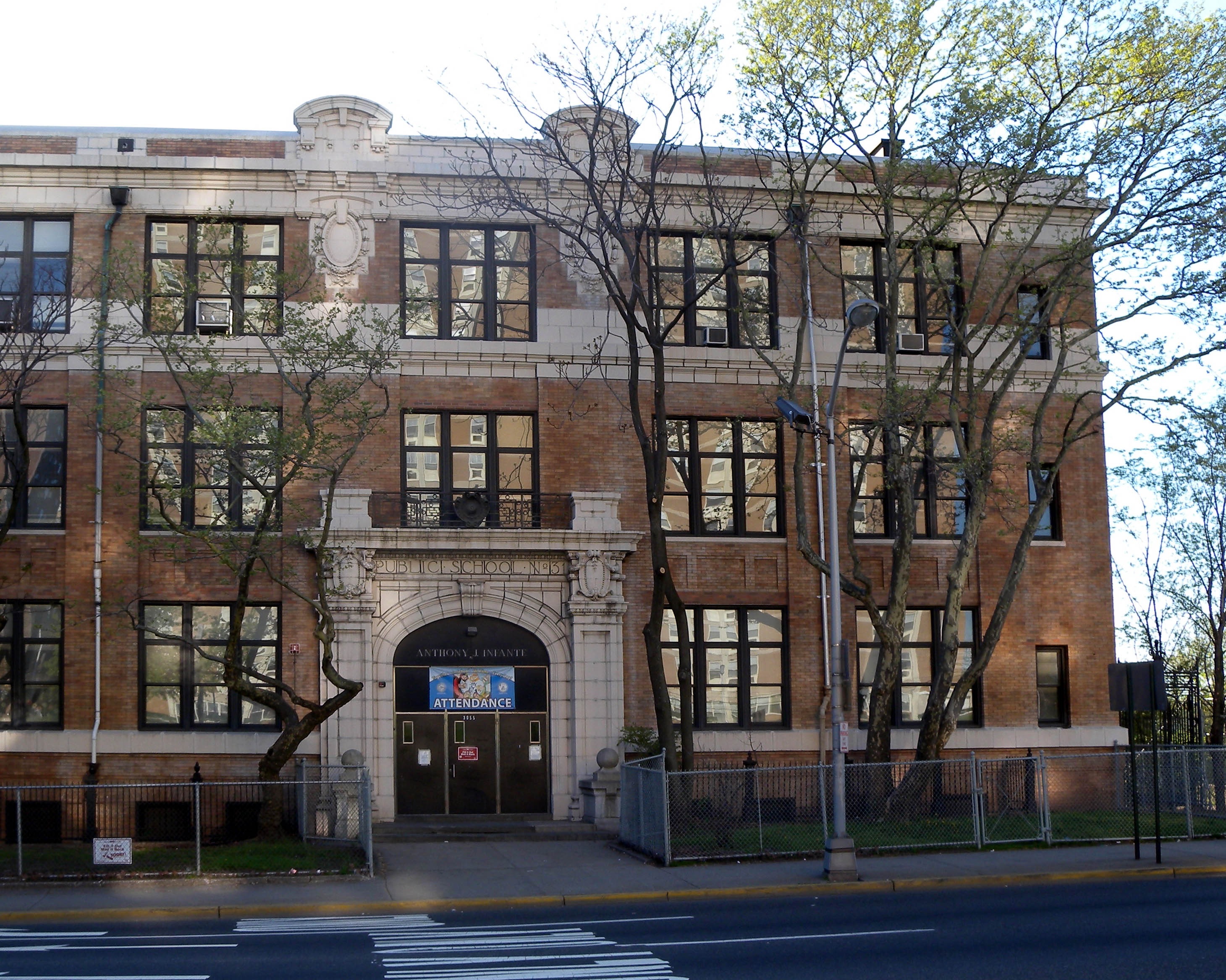 Looking west across JFK Boulevard at Anthony Infante PS 3 on a sunny afternoon.